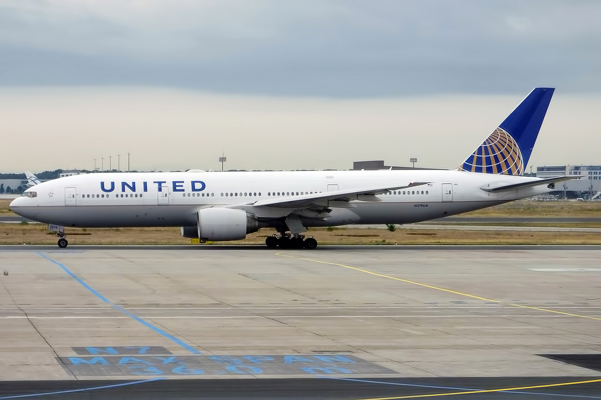 United Airlines, N219UA, Boeing 777-222 ER